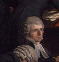 The Trial of Queen Caroline 1820, by Sir George Hayter (died 1871), given to the National Portrait Gallery, London in 1912. All images in this batch have been confirmed as author died before 1939 according to the official death date listed by the NPG.